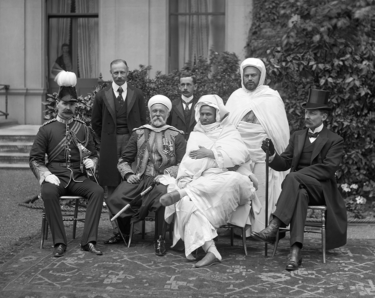 Mission from Sultan of Morocco to congratulate King Edward VII on his accession. 1902